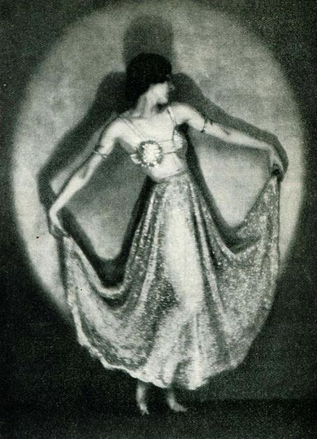 Desha Delteil with the Fokine Ballet, on page 17 of the January 1922 The Tatler.